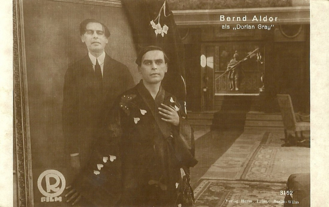 Das Bildnis des Dorian Gray (1917) German postcard by Hermann Leiser Verlag, Berlin, no. 3152. Photo: Richard-Oswald-Produktion. Bernd Aldor in Das Bildnis des Dorian Gray (Richard Oswald, 1917), an adaptation of Oscar Wilde's The Picture of Dorian Gray.